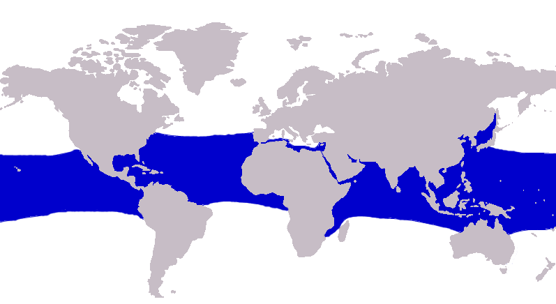 Self made image of the distribution of the rainbow runner, Elagatis bipinnulata. Map based on